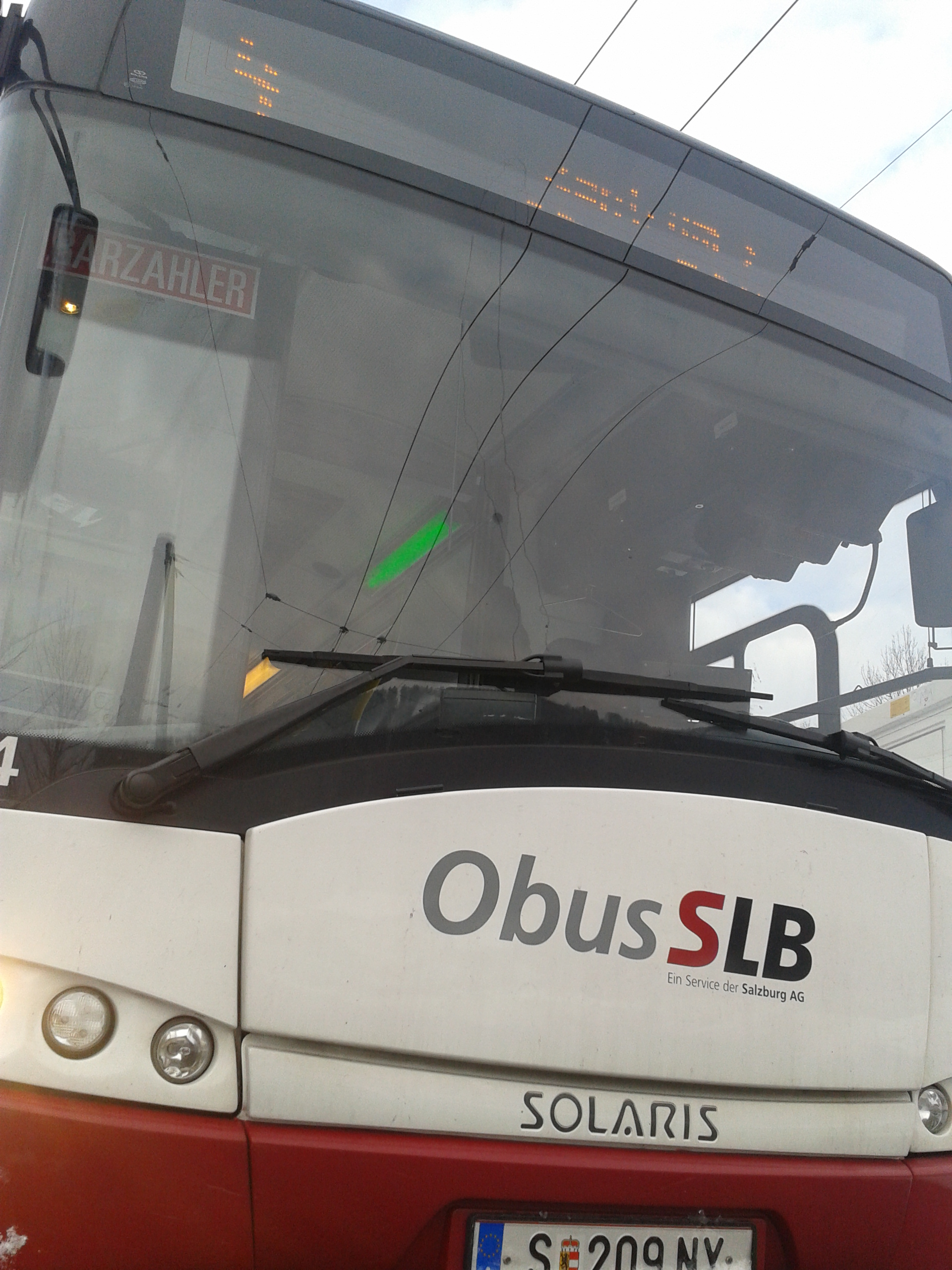 Solaris Trollino 18AC trolleybus (#304, reg. S-209 NY, built 2010) in Salzburg, Austria. Salzburg AG operator.